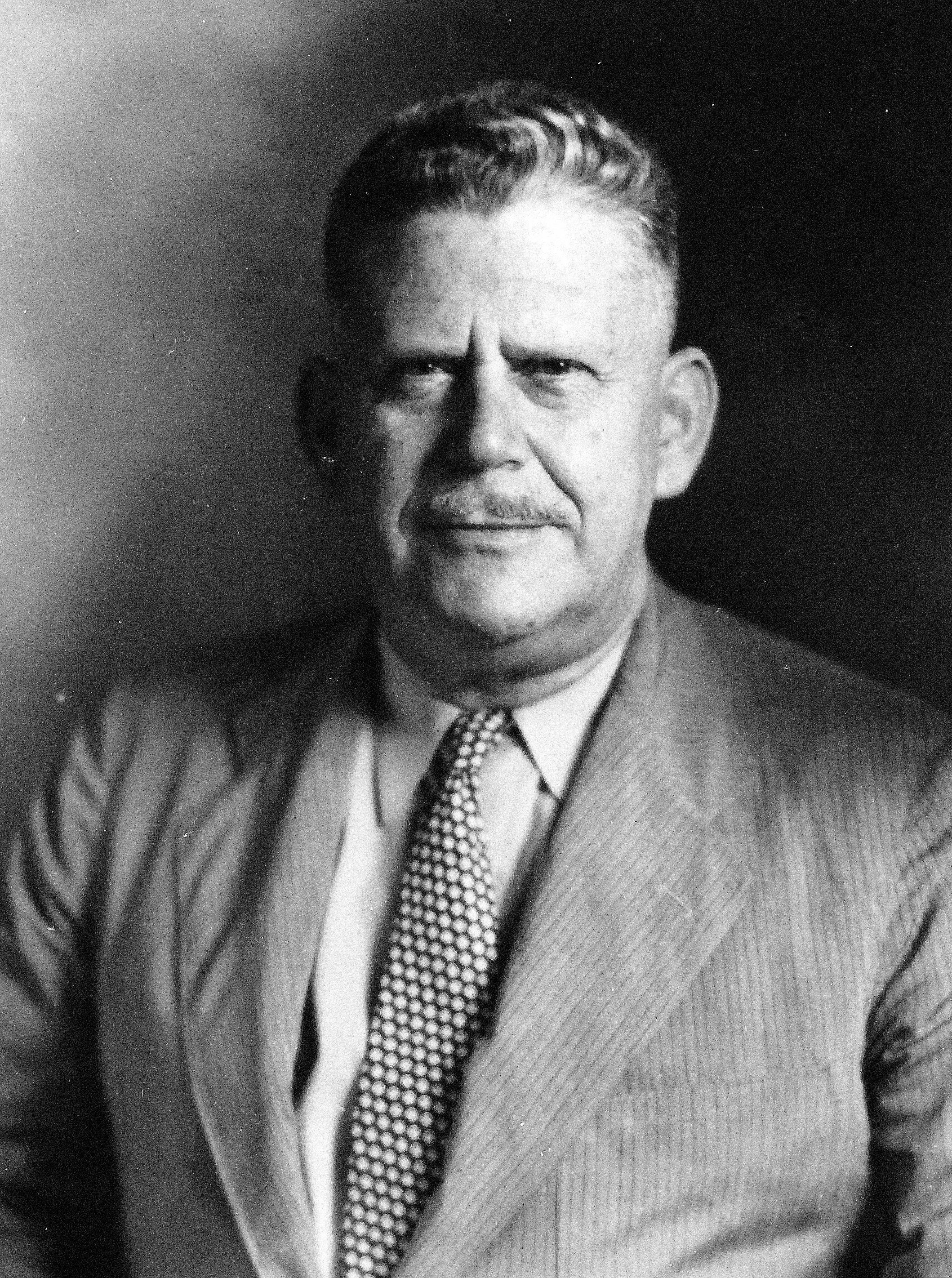 Captain Holden C. Richardson, USN, (Retired), June 1, 1938. Richardson was Naval Aviator No.13.